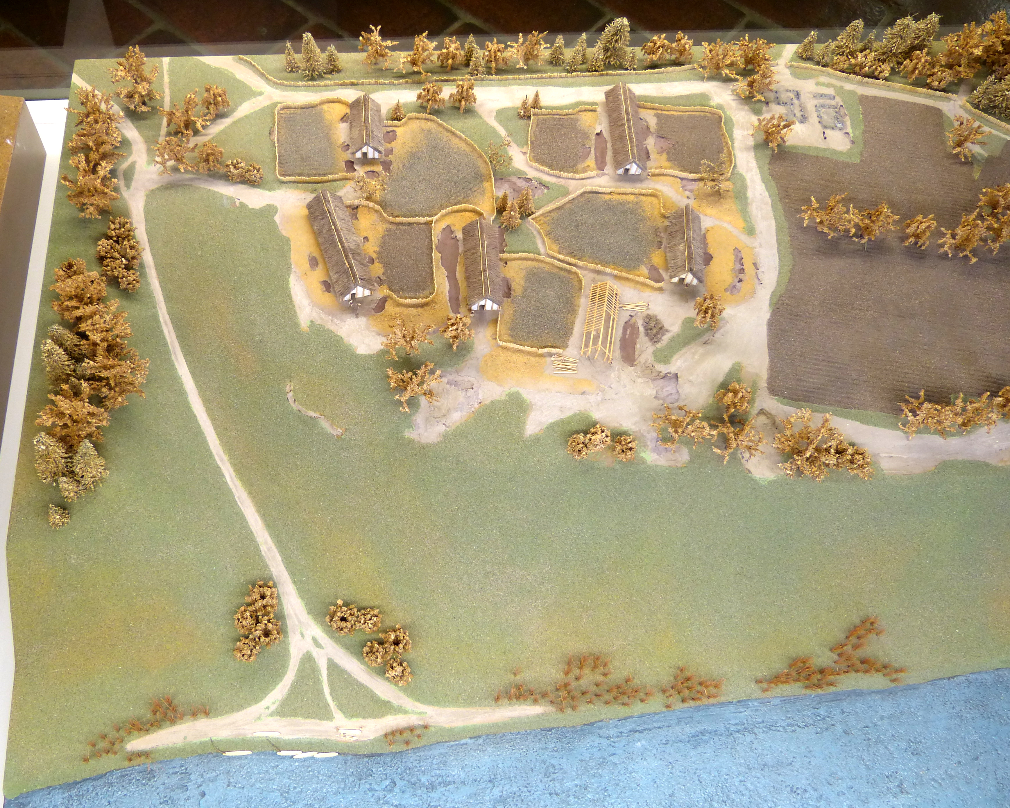 Kelheim ( Lower Bavaria ). Archaeological Museum: Reconstruction of a settlement of the Linear pottery culture ( 5th millenium BC ) from Hienheim